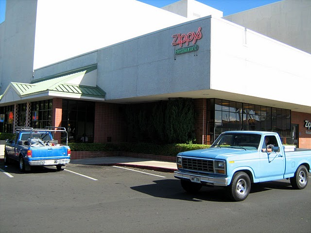 Zippy's in Pearlridge Center, Aiea, Hawaii